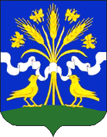 Coat of Arms of Kirsanovsky rayon (Tambov oblast)